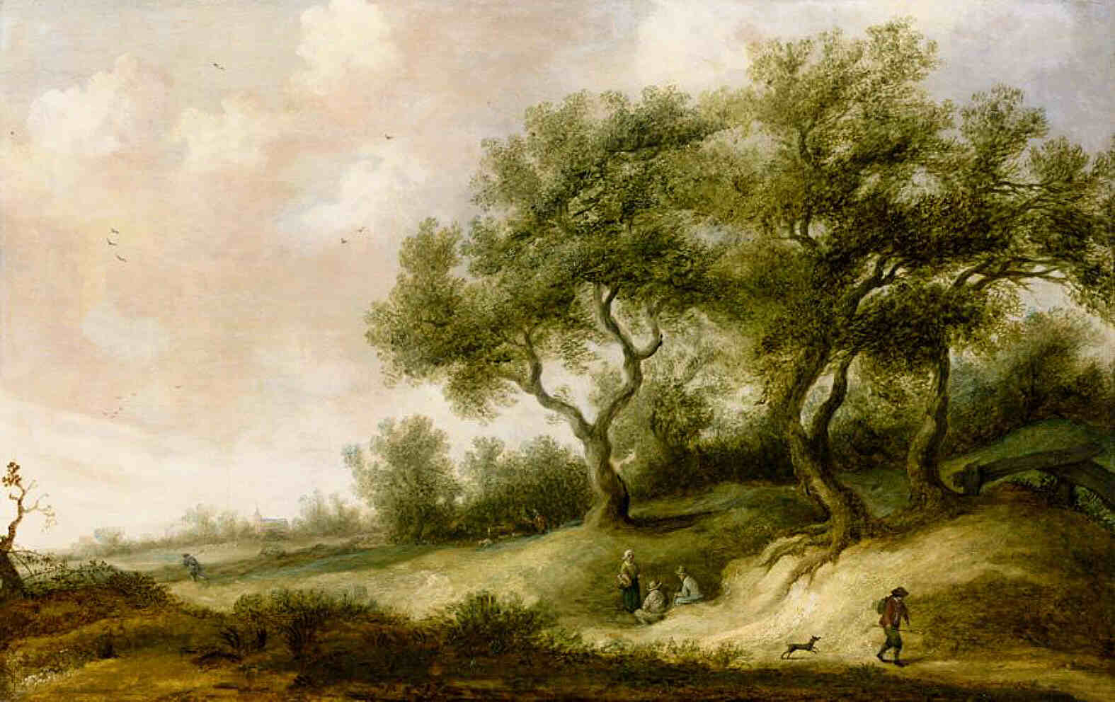 Dune Landscape With a Traveler and His Dog, Persons and a Church Beyond